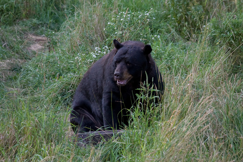 Black Bear in Minnesota